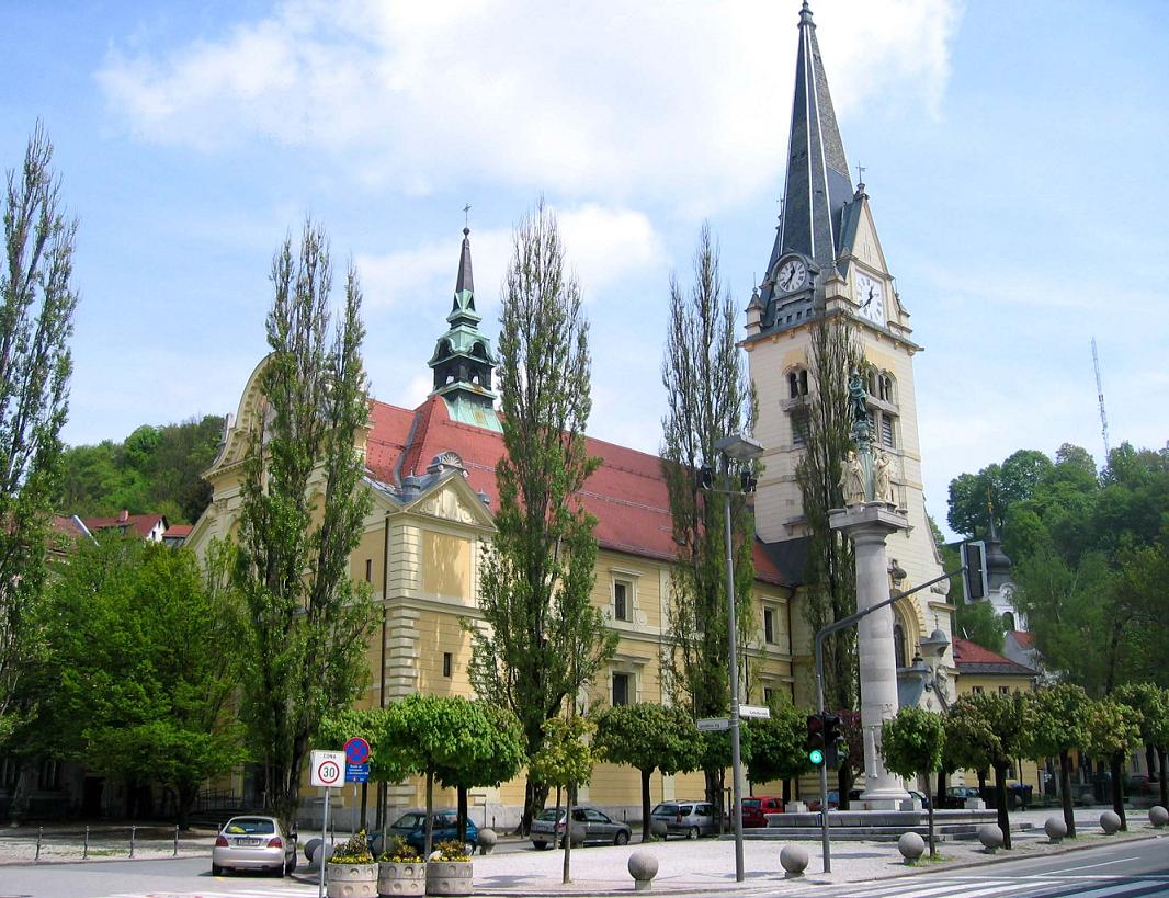 St.Jacob church, Ljubljana photo:Ziga 14:13, 1 May 2006 (UTC)